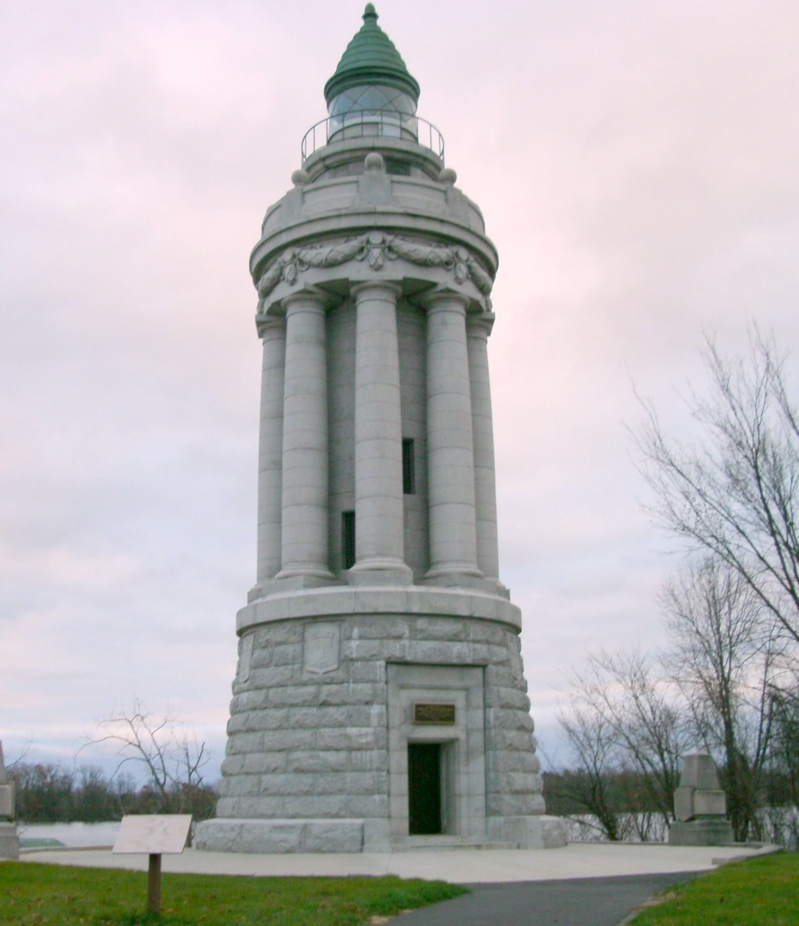 GE DIGITAL CAMERA Champlain Memorial Lighthouse - Crown Point, New York